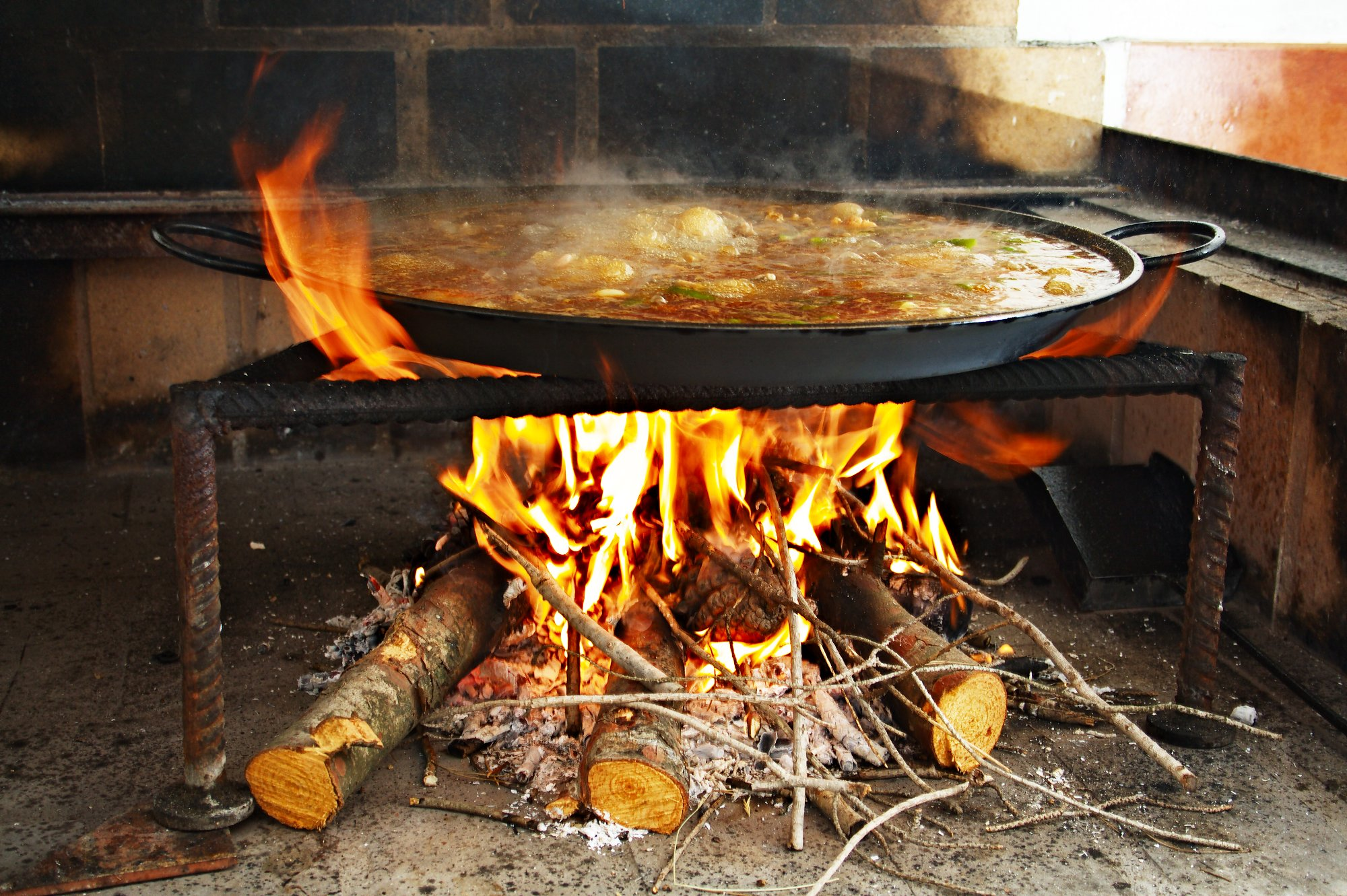 Paellero